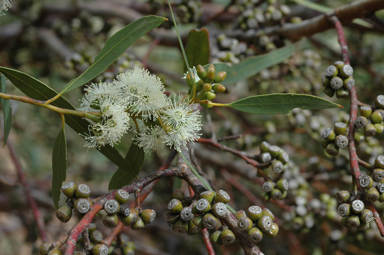 Flowers and fruit of Eucalyptus effusa in the Waite Arboretum, Adelaide, South Australia